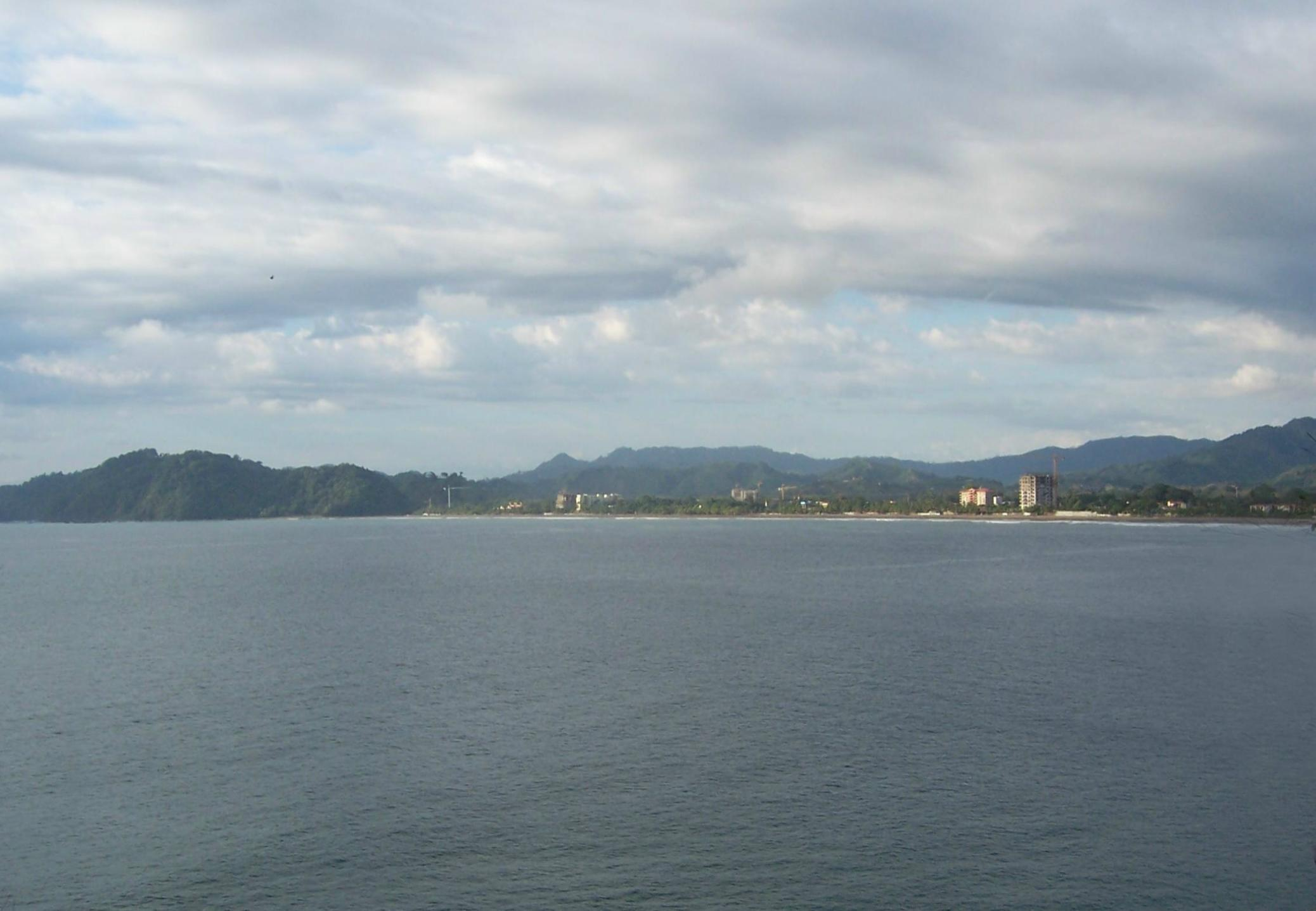 Jacó Bay in Costa Rica